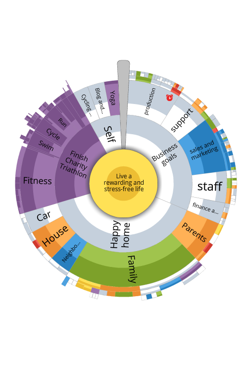 Screenshot of Goalscape personal life goals project.